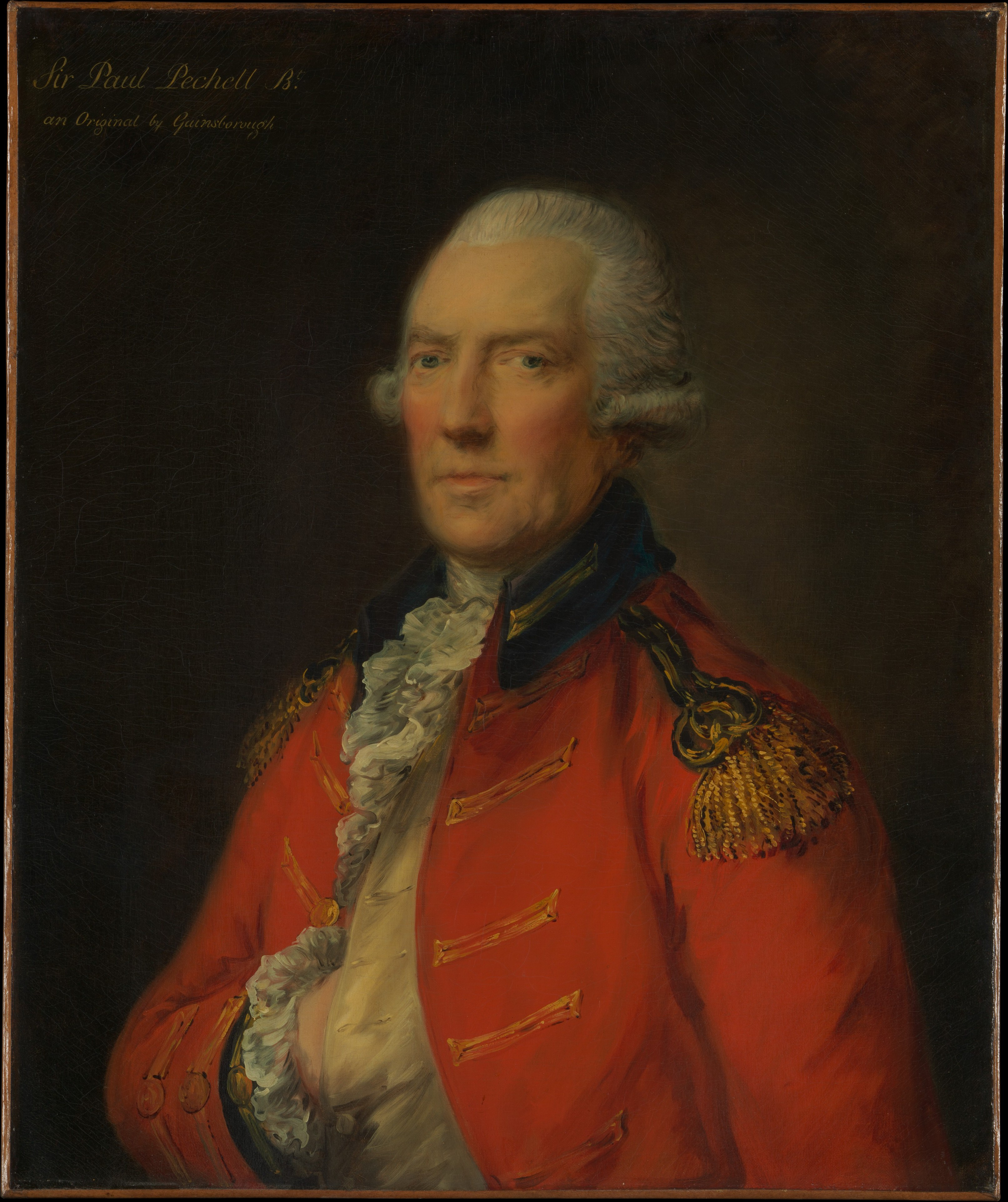 Thomas Gainsborough (British, Sudbury 1727–1788 London) Portrait of Lieutenant Colonel Paul Pechell (1724–1800),at The Metropolitan Museum of Art, New York, Gift of Mr. and Mrs. Harry Payne Bingham Jr., 1990 (1990.200)